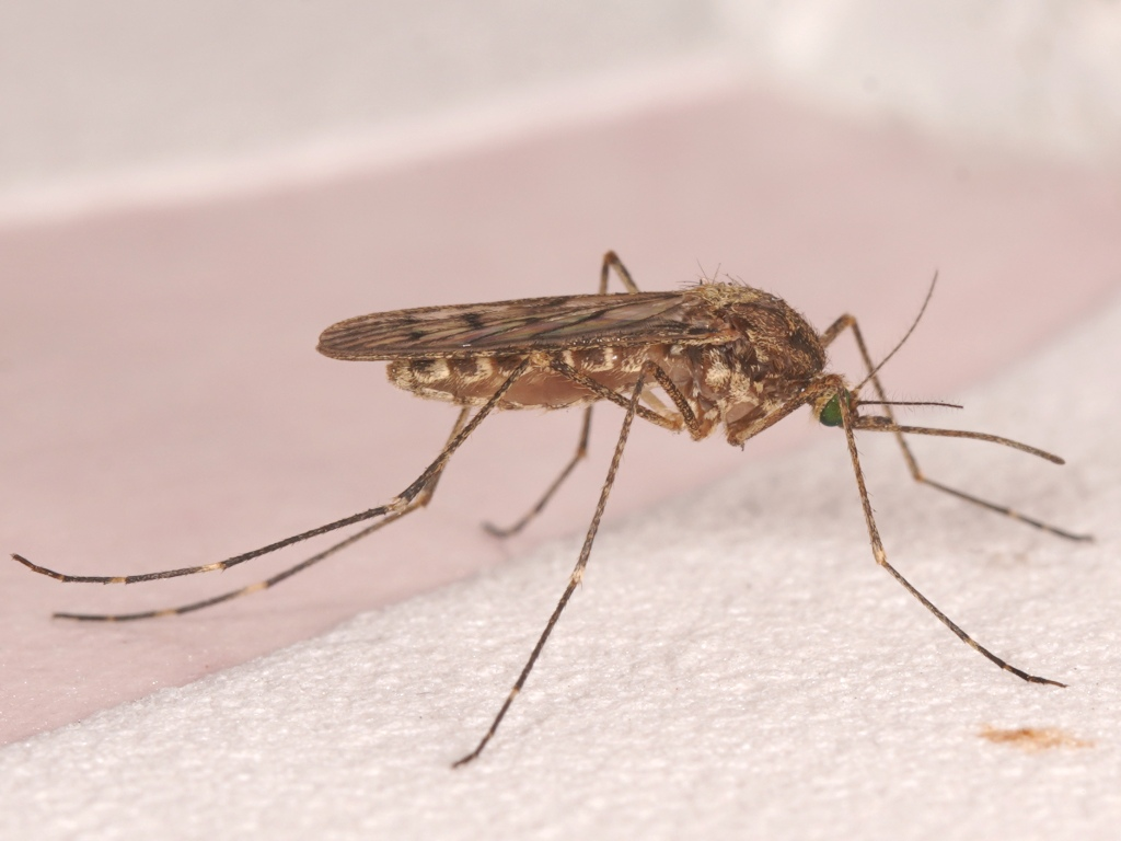 Culiseta alaskaensis. Found in Rīga, Latvia on building wall sitting still.